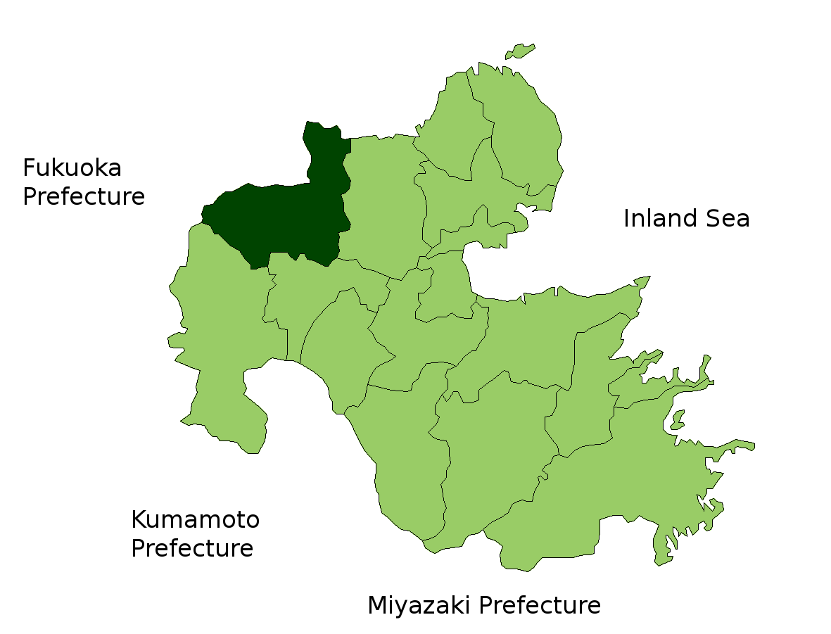 Location Map of Nakatsu in Oita Prefecture, Japan